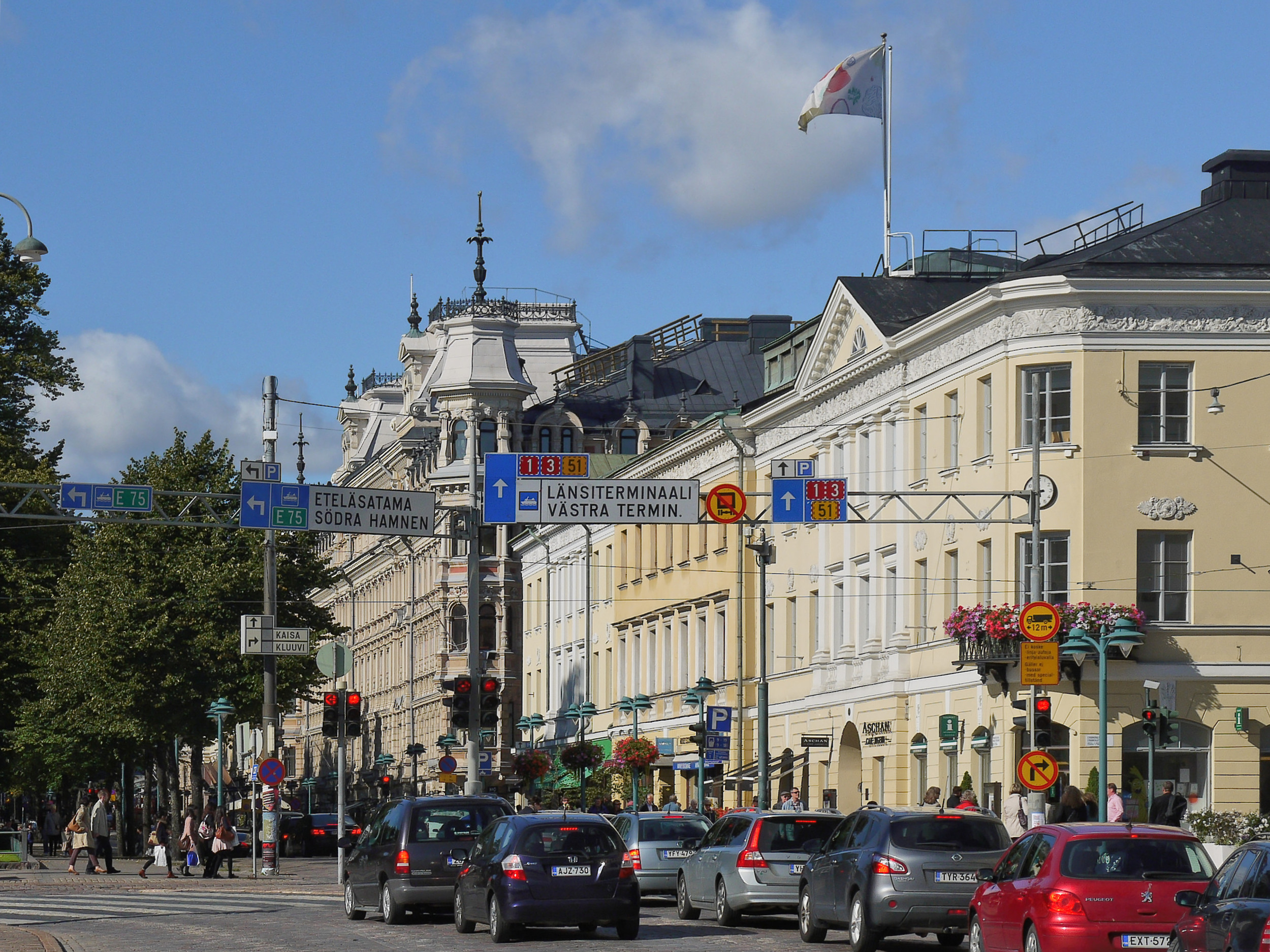 Pohjoisesplanadi street in Helsinki, Finland